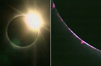 Left: The sun creates a "diamond ring" effect as it emerges after totality. Right: Solar flares, or "prominences" are visible at the edge of the moon's shadow. Credit: NASA TV